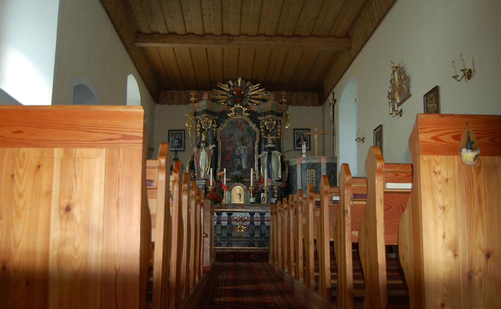 small church St.Pankrazen on the eastern slope of Masenberg in Styrian village Stambach, near Hartberg (indoor sight)